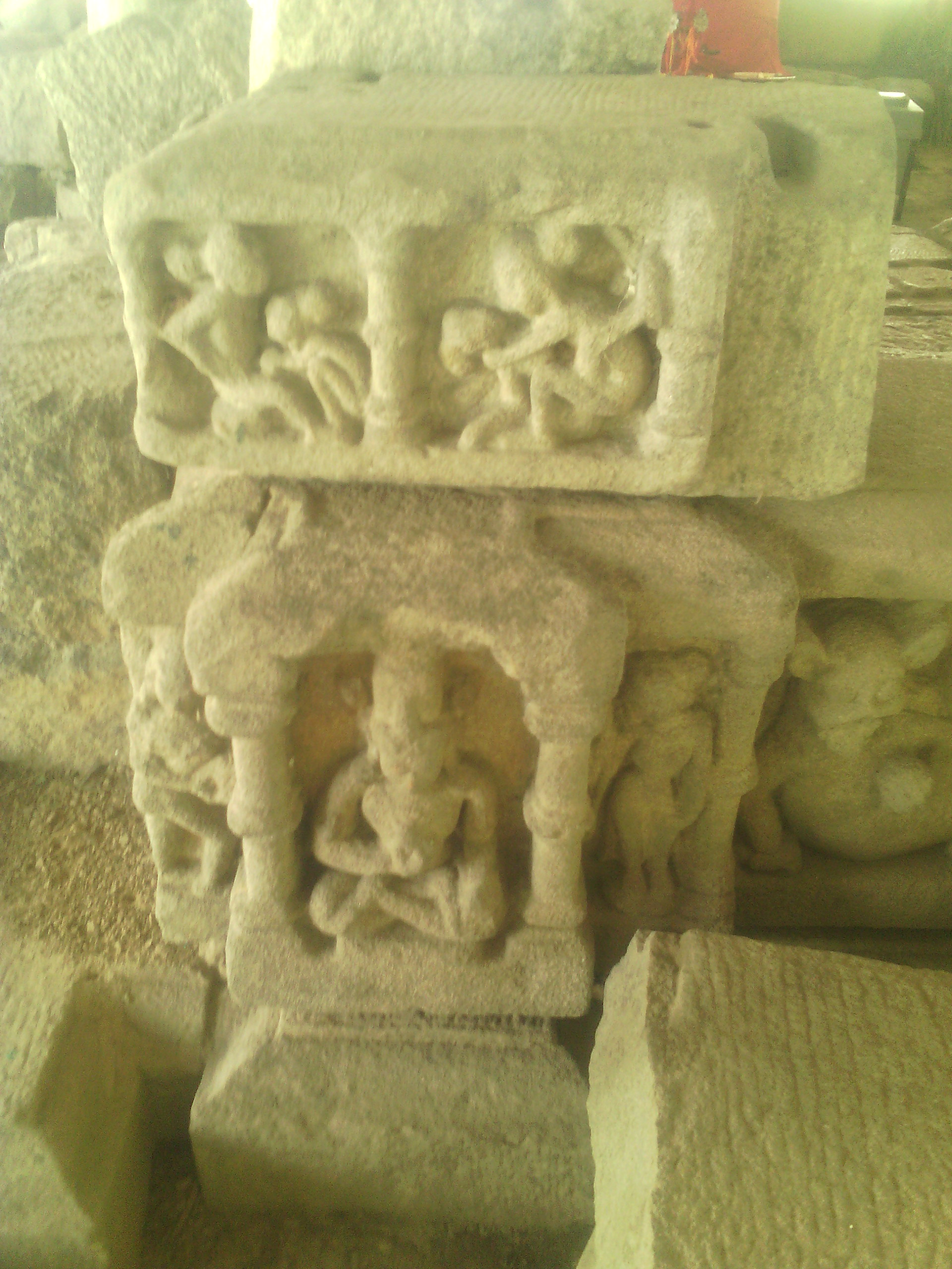 Madan Kamdev, an archeological site in Baihata, Kamrup.